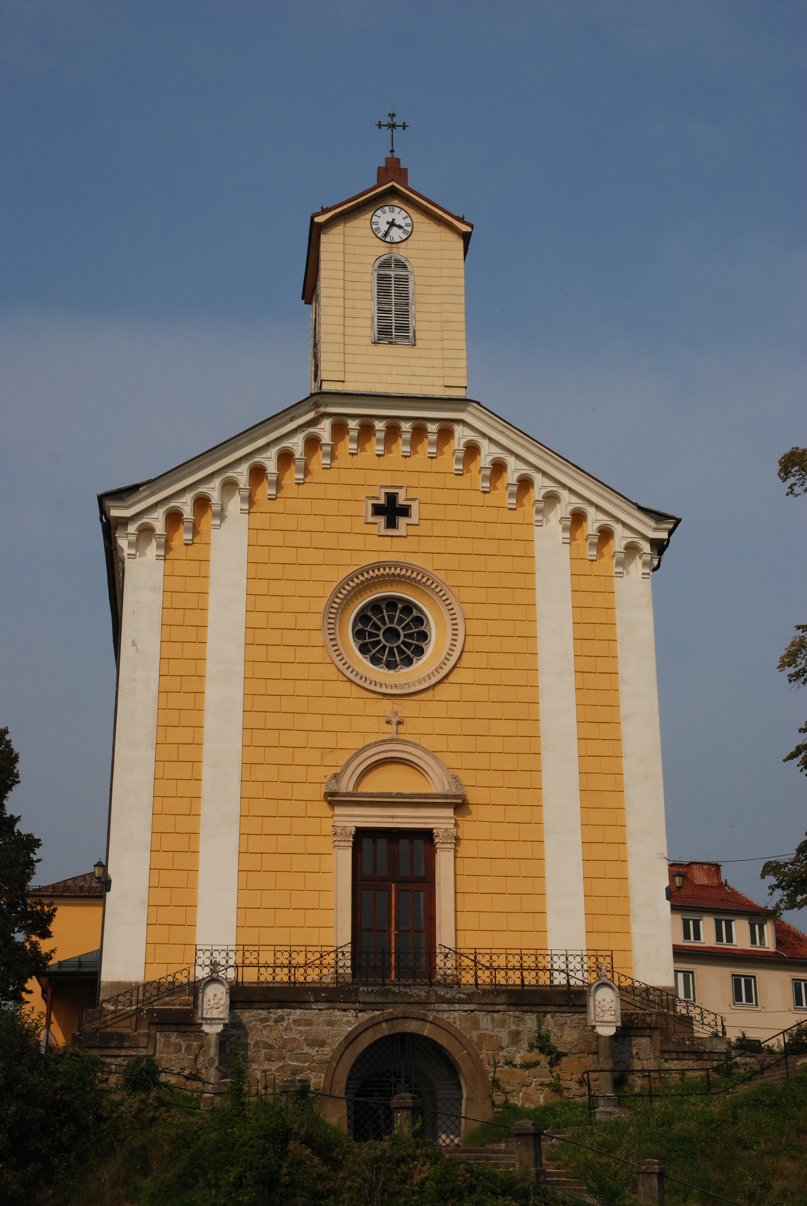 Kirche Bad Gleichenberg